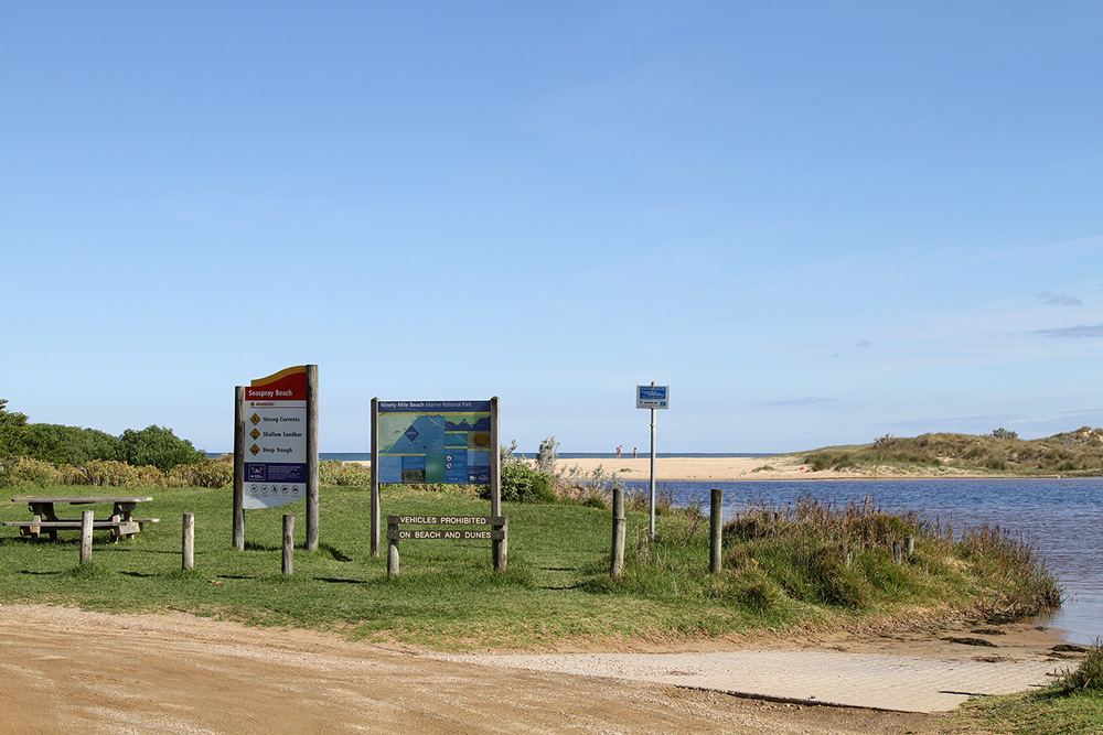 Looking south across Seaspray Public Purposes Reserve and Merriman Creek to McLoughlins Beach (Ninety Mile Beach), Seaspray, Victoria, Australia.